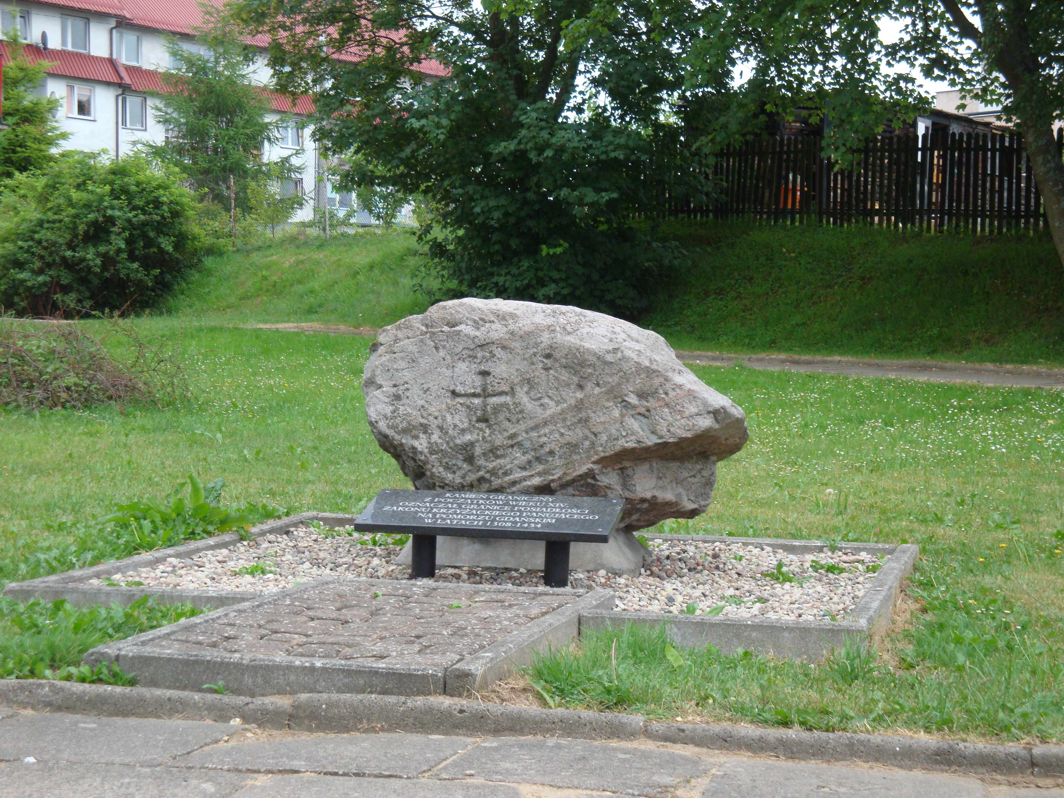 Wicko, village in pomeranian voivodeship, Poland. Boundary stone of Teutonic Order land